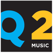 Logo for Q2 Music, an iHeartRadio digital channel